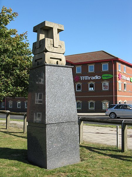 The Teesside Development Corporation statue at the entrance to Teesdale Business Park in Thornaby on Tees.